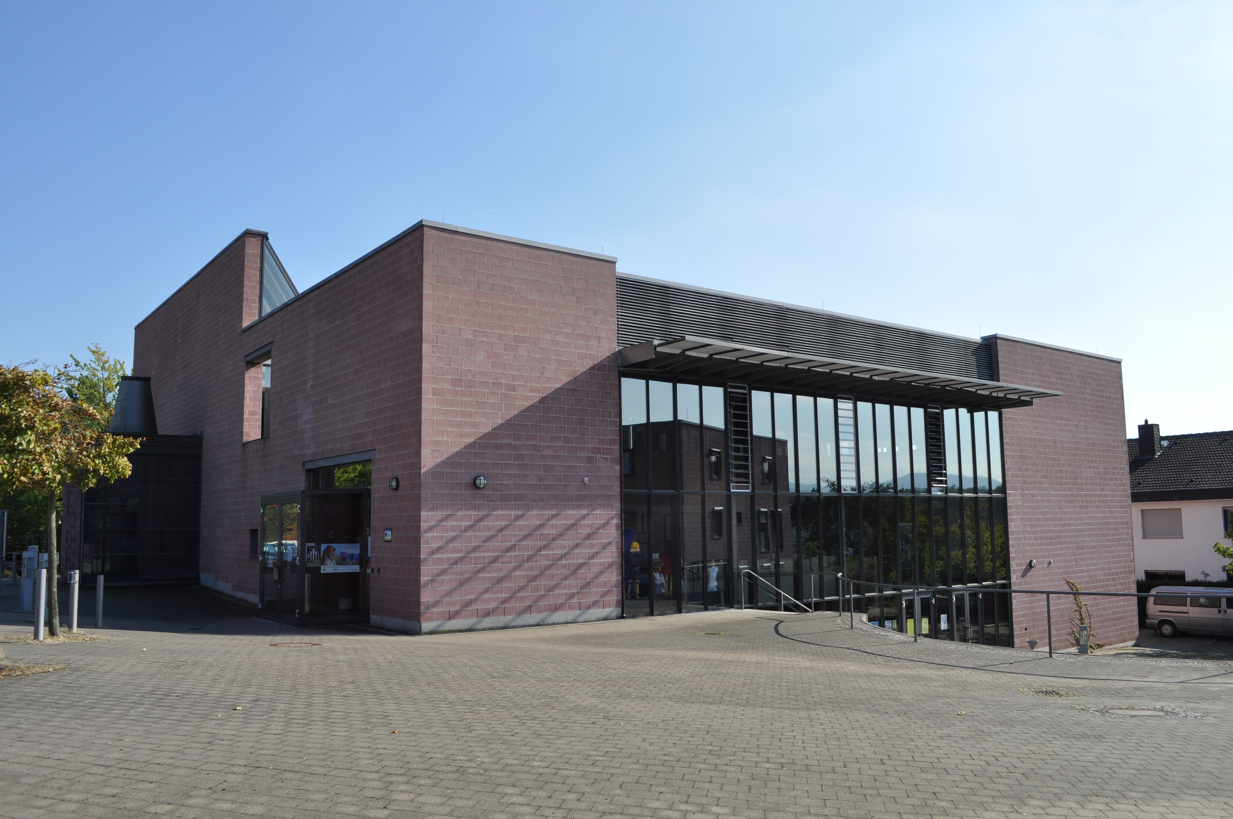 Friedrichsdorf, katholische Bonifatius-Kirche